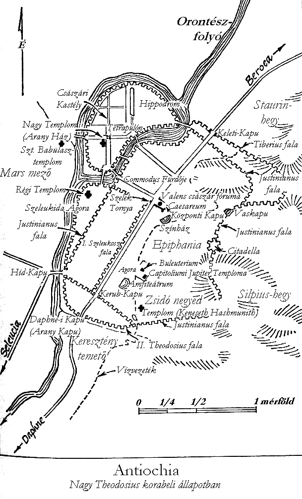 Map of Antiochia ad Orontem / Antioch / Ἀντιόχεια ἡ ἐπὶ Ὀρόντου